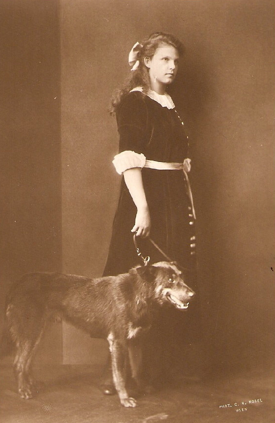 Archduchess Maria Antonia of Austria, Princess of Tuscany (1899-1977)